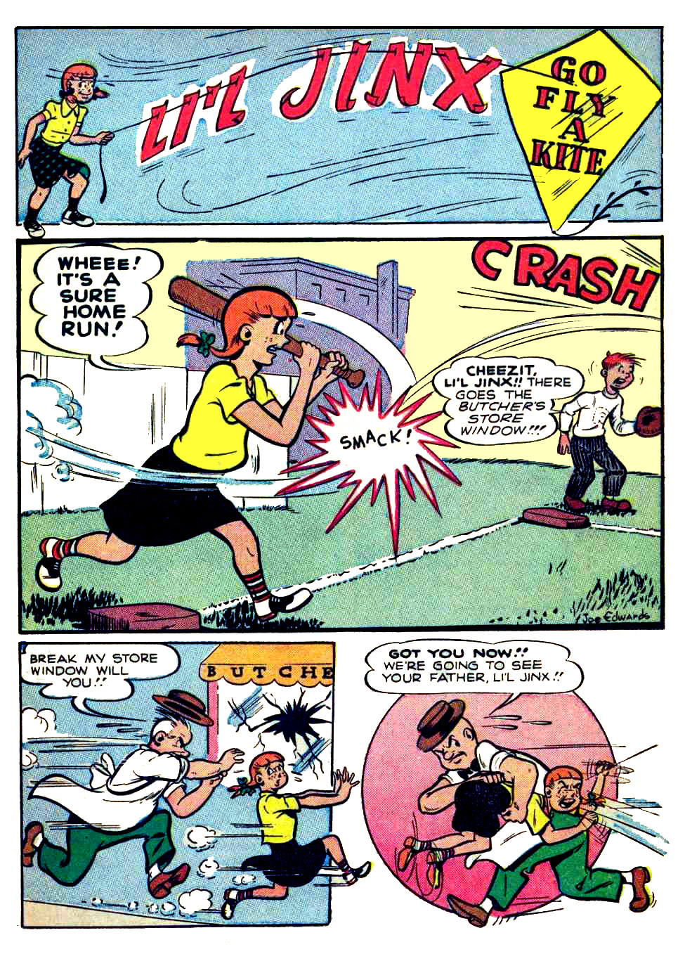 Perennial tomboy Li'l Jinx raises another ruckus in the back pages of Pep Comics number 71. Artwork by Joe Edwards.